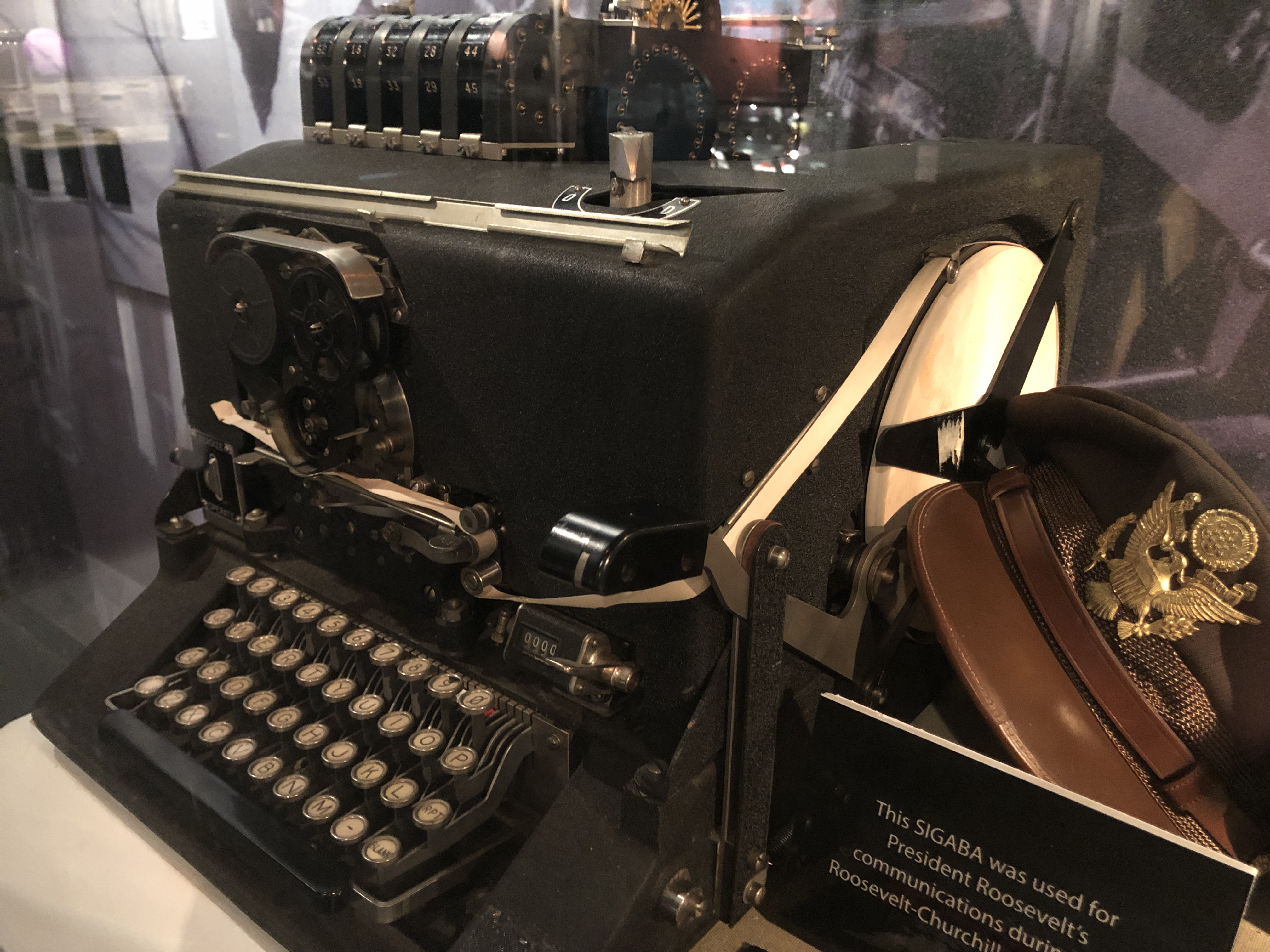 SIGABA cipher machine, side view, on display at the U.S. National Cryptologic Museum